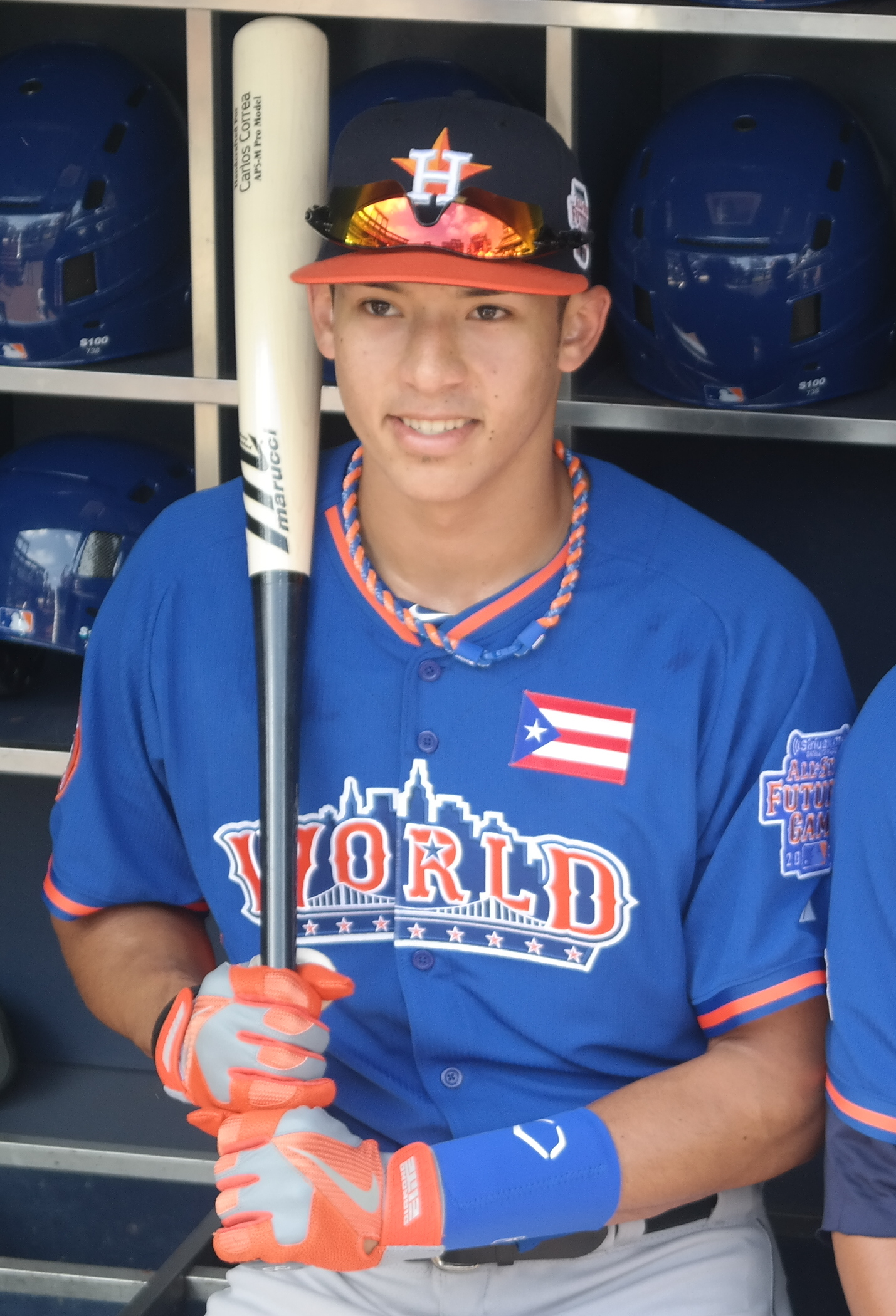 Astros prospect Carlos Correa at the 2013 Futures Game.